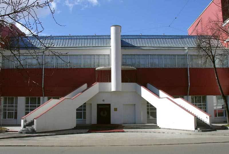 Svoboda Factory Club, stairs — by Konstantin Melnikov, Moscow, Russia.